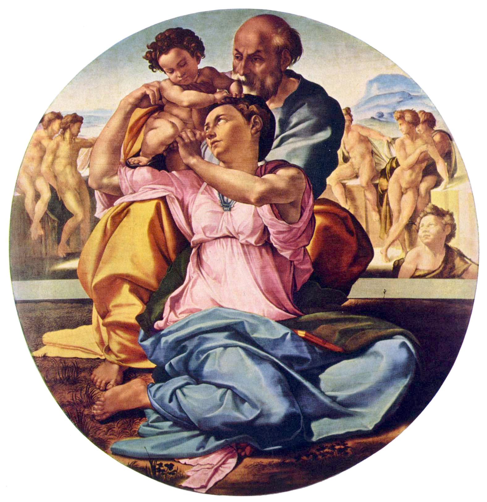 Tondo Doni, oil on wood